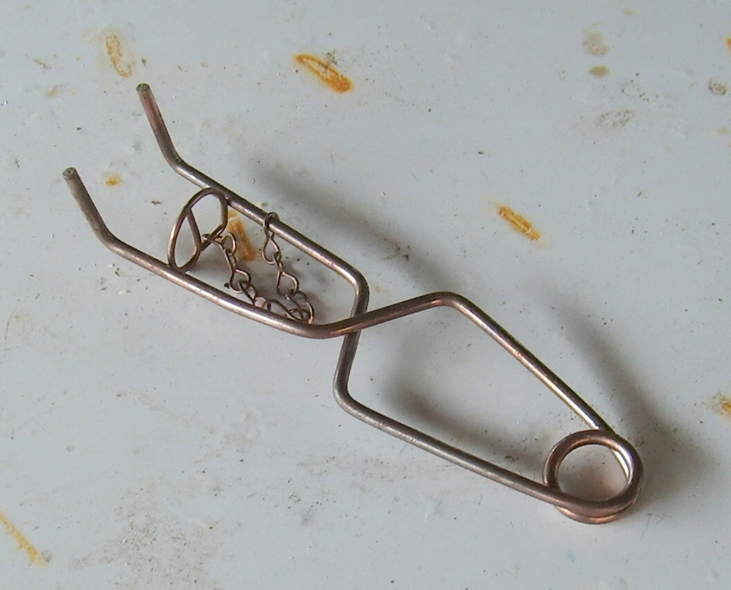 A mousetrap for mice living in the earth.